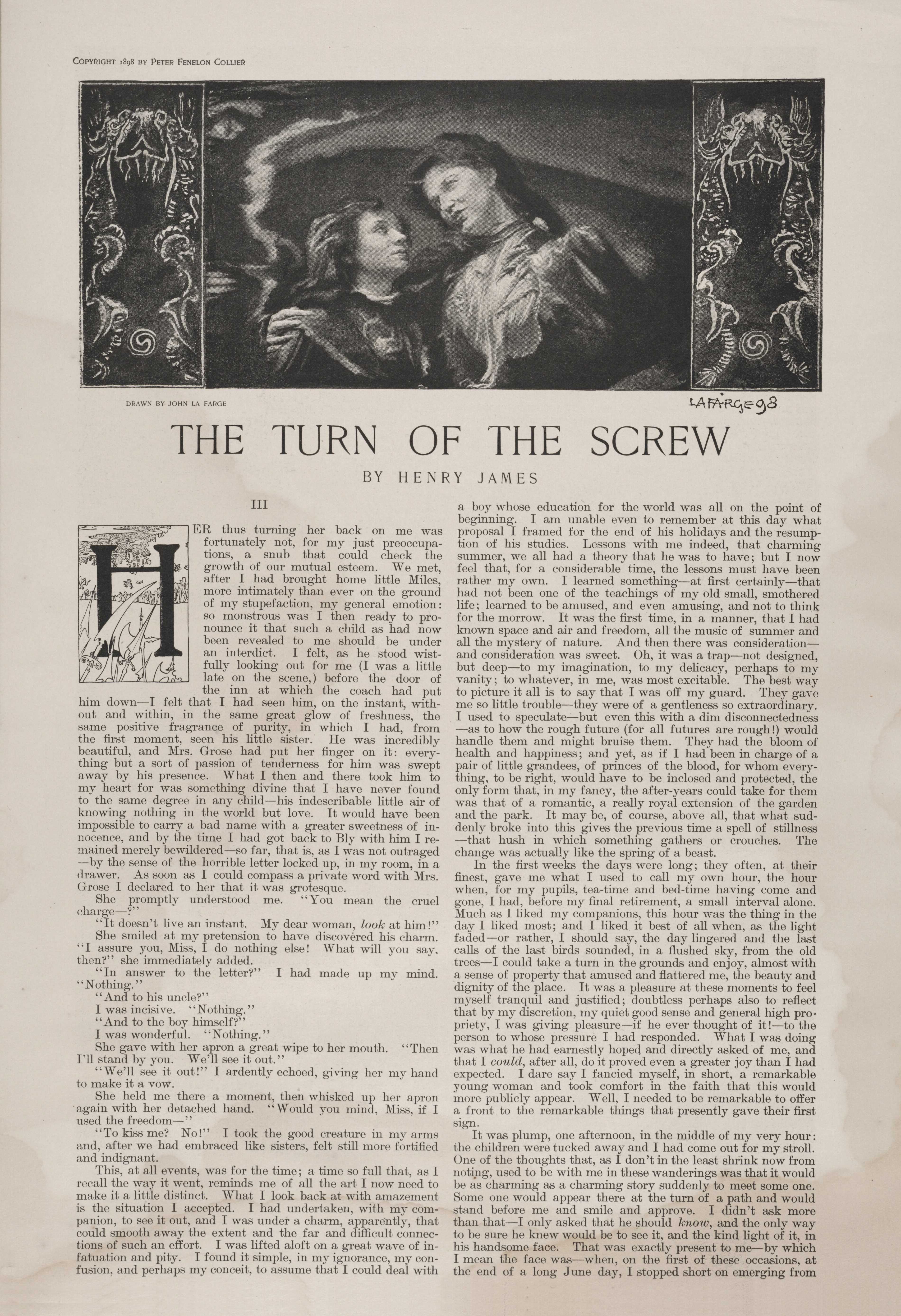 Part First, chapter three of the serialized printing of Henry James' novella The Turn of the Screw